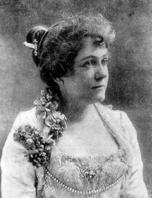 Amy Sherwin